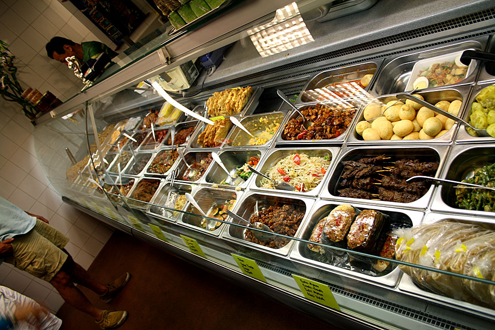 Indonesian and Indo-European ie Eurasian fusion dishes on display in one of the many Indo (Dutch-Indonesian) Tokos in Amsterdam, The Netherlands, 2011.